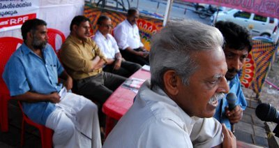 Varavara rao, telugu poet at kollam This media file is uploaded with Malayalam loves Wikimedia event - 3.